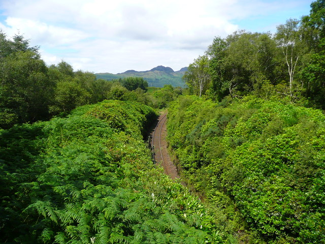 Single track to Crianlarich